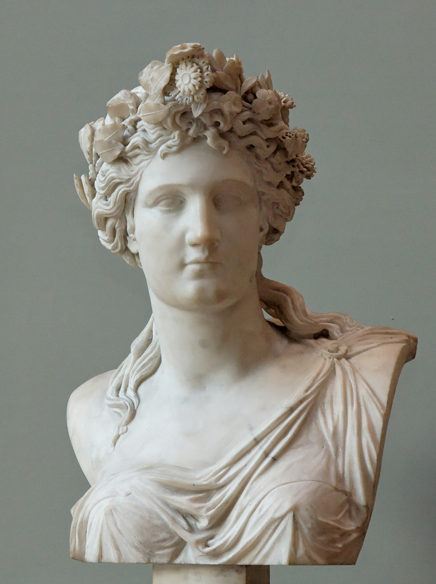 Corinne, representation of the eponymous character from the novel by Madame de Staël.